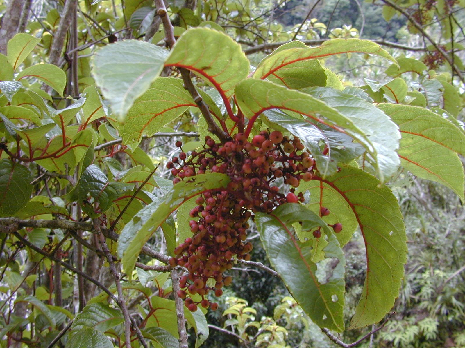 Perrottetia sandwicensis (fruits). Location: Maui, Makawao Forest Reserve